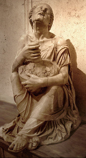 Drunken old woman clutching a big lagynos (Hellenistic wine jug) decorated with reliefs. Marble, Roman copy after a Greek original of the 2nd century BC (200–180). According to Roman tradition, this famous statue type was credited to an artist called Myron.